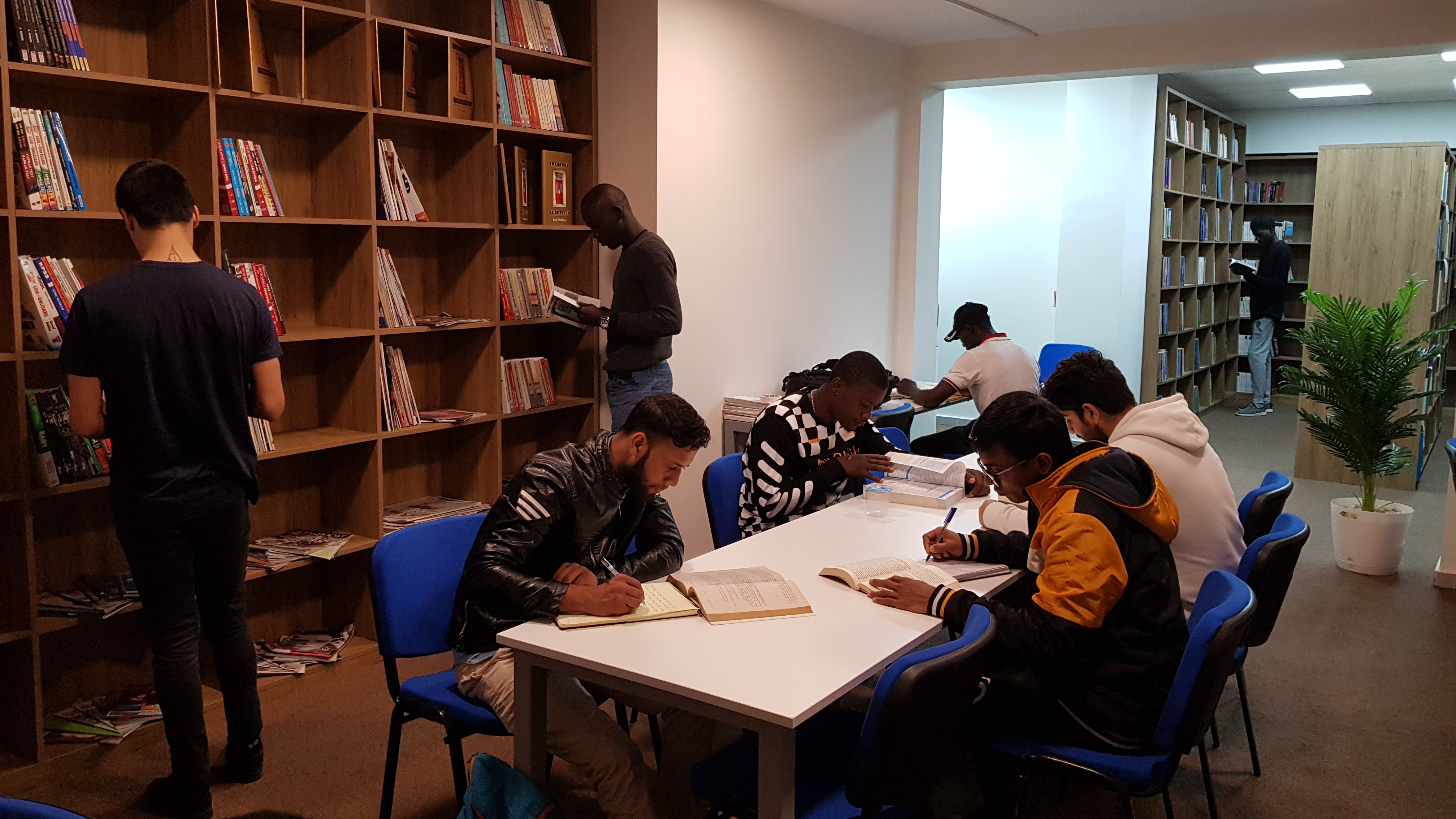 cwu-library